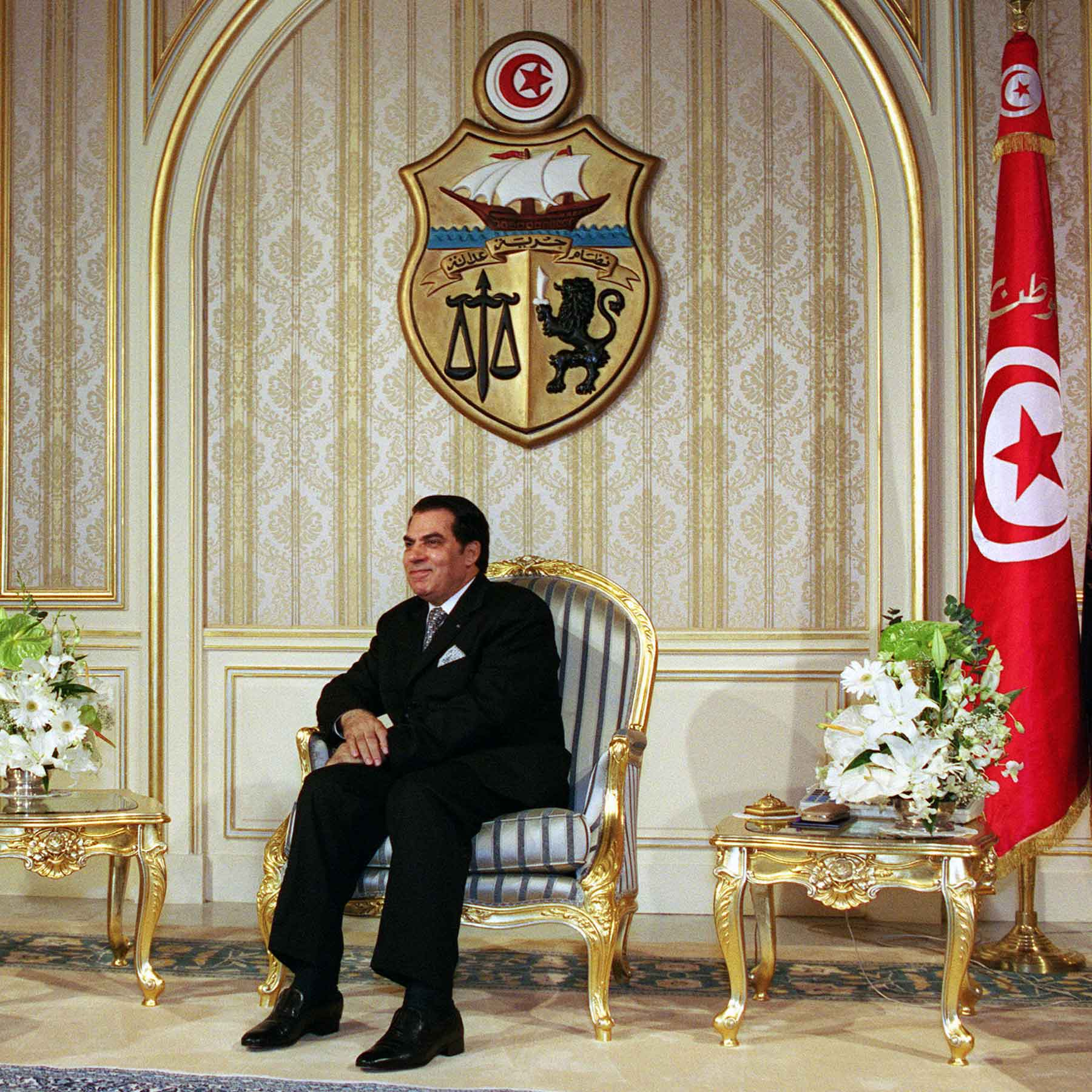 Tunisian President Zine El Abidine Ben Ali at the Presidential Palace in Tunis, Tunisia, on Oct. 7, 2000.